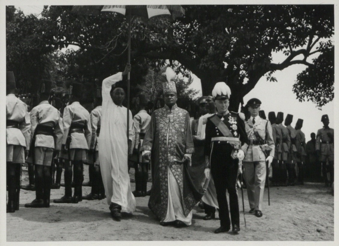 The Omukama of Toro (centre) and the British governor of Uganda, Sir Frederick Crawford at the signing of an agreement in Kabarole, Toro, Uganda, late 1950s